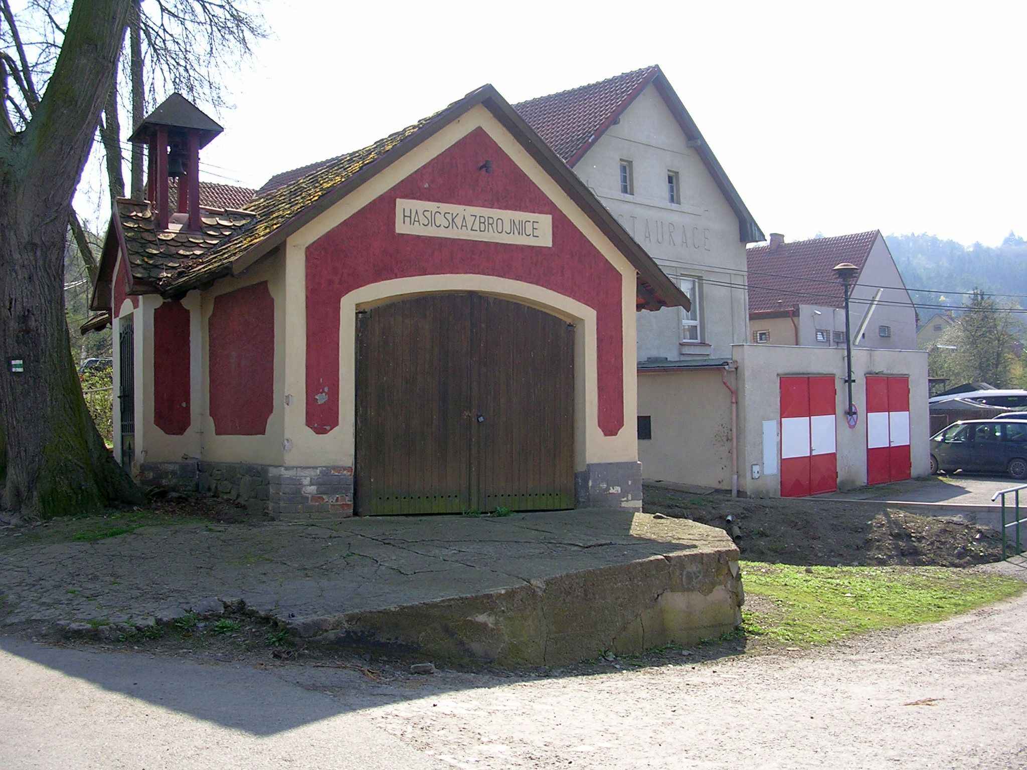 Hradištko-Pikovice, Central Bohemian Region, the Czech Republic.